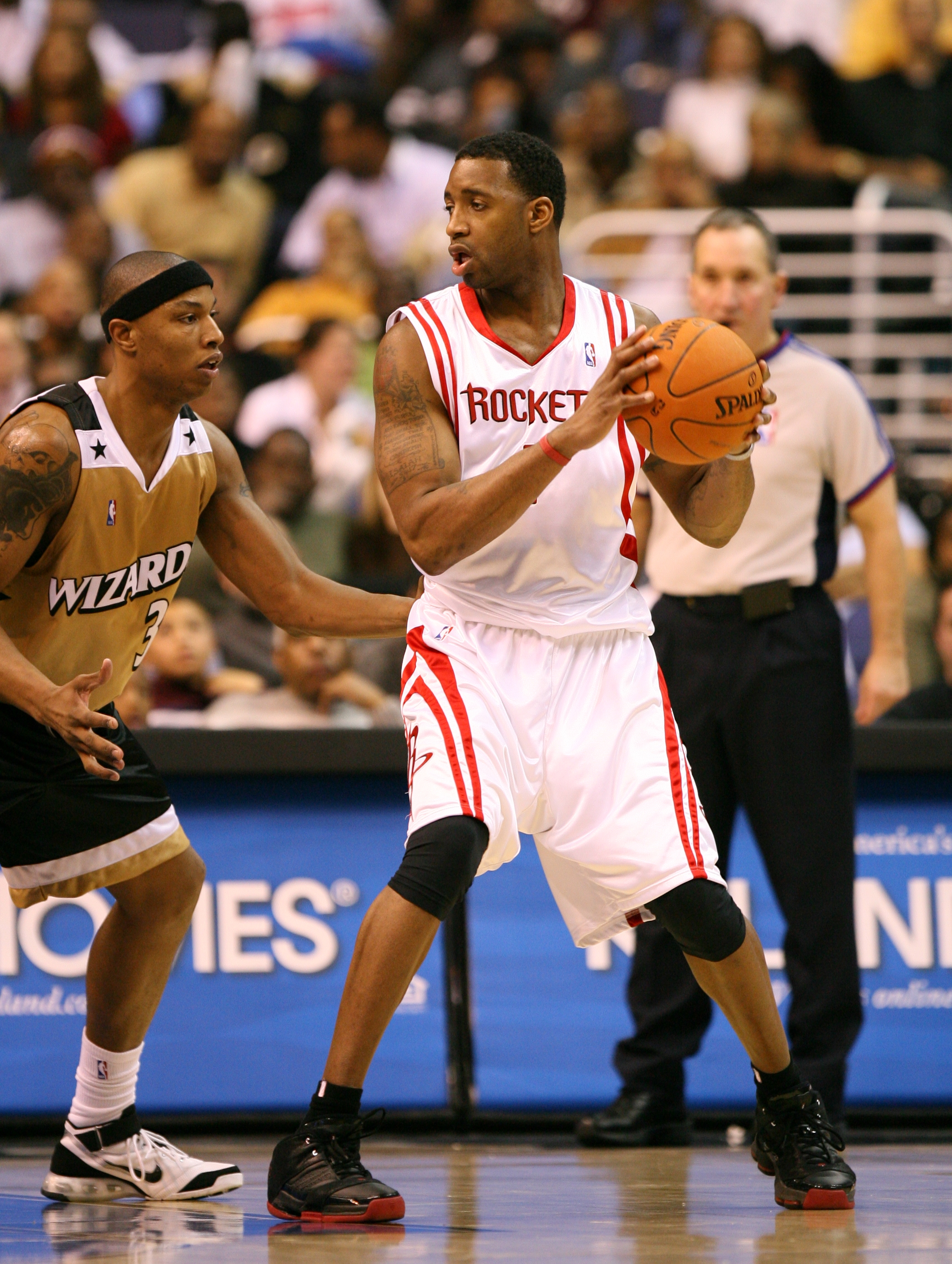 Tracy McGrady playing against the Washington Wizards of the National Basketball Association, guarded by Caron Butler